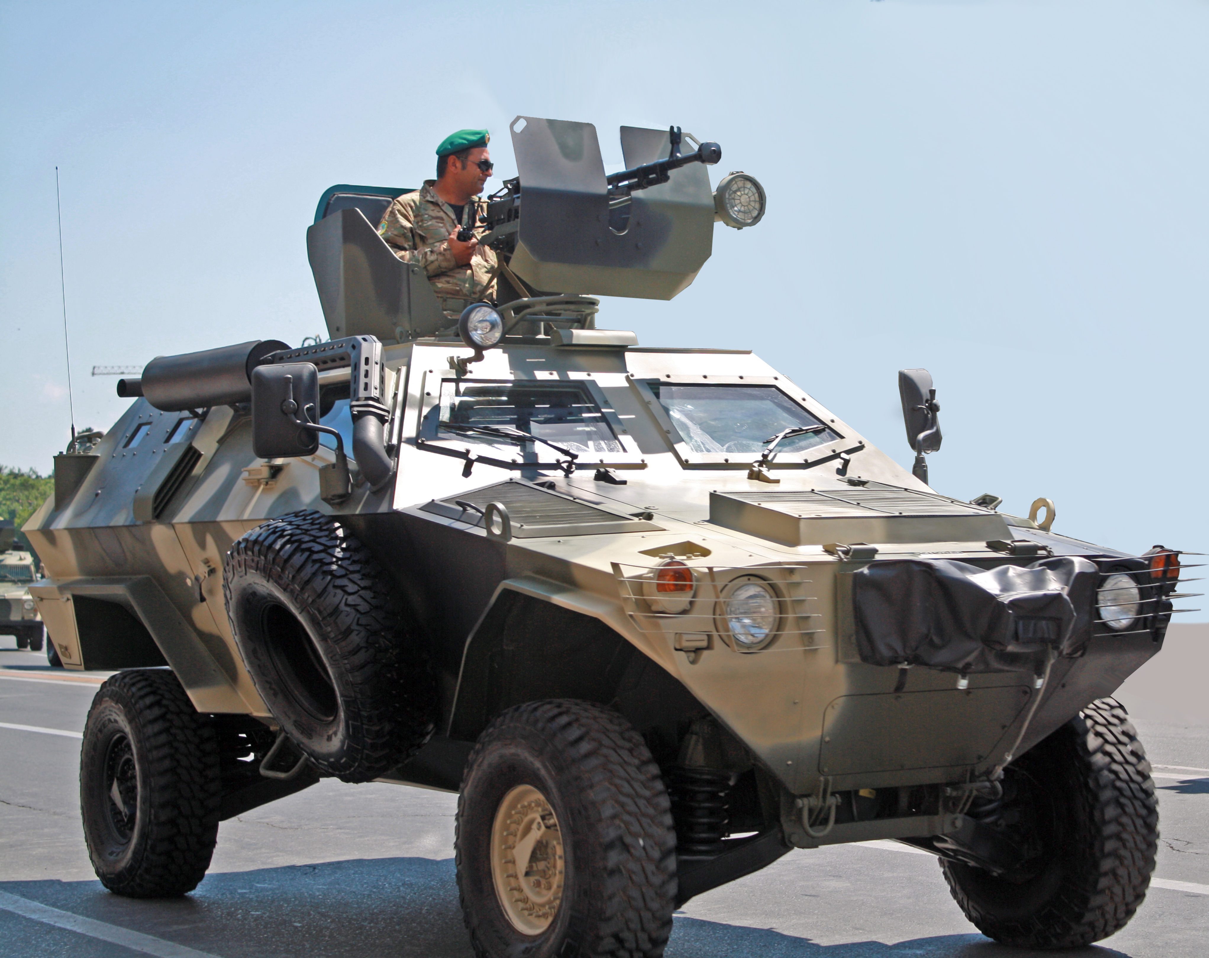 Otokar Cobra